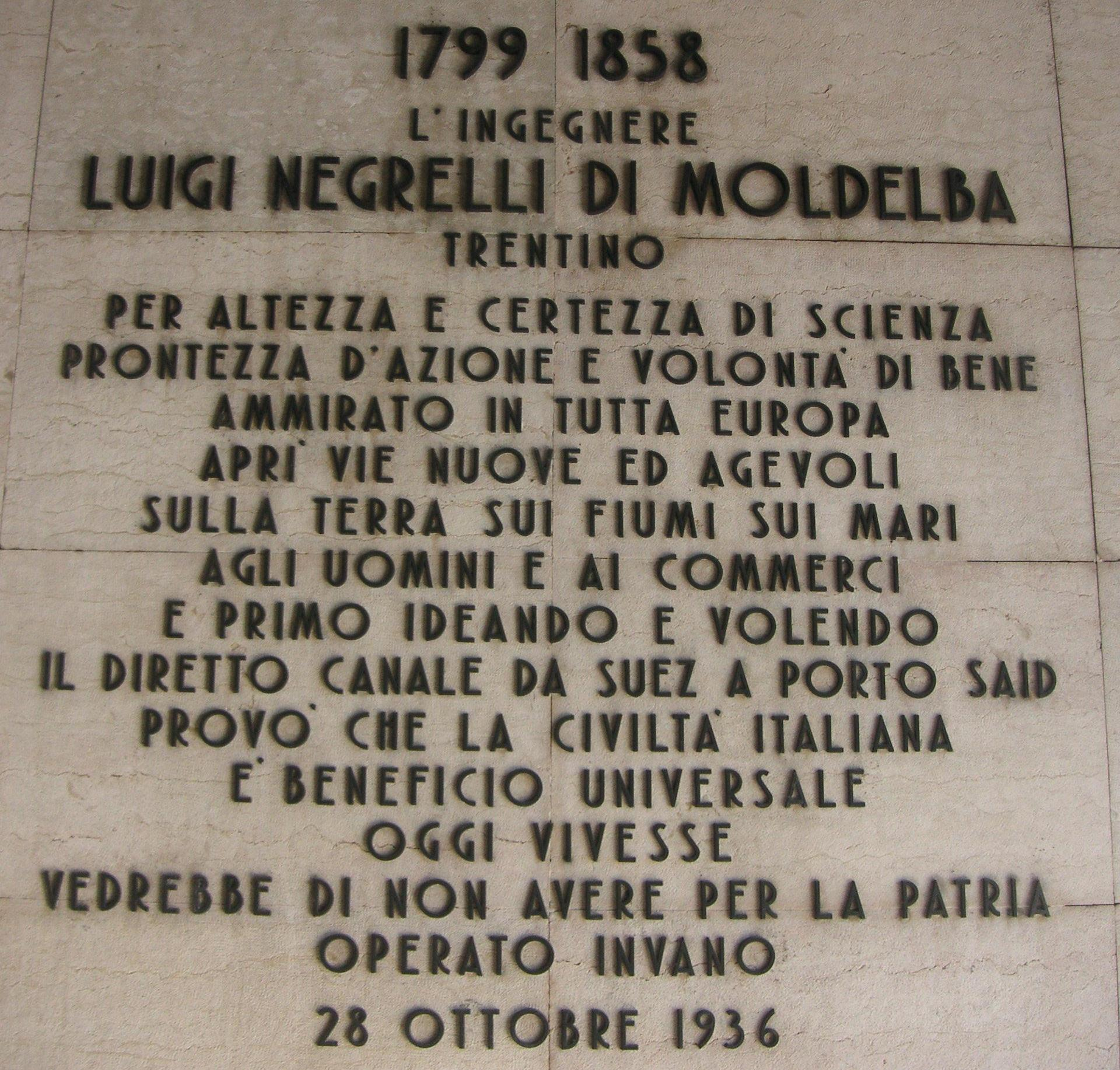 Plaque dedicated to Alois Negrelli in Trento